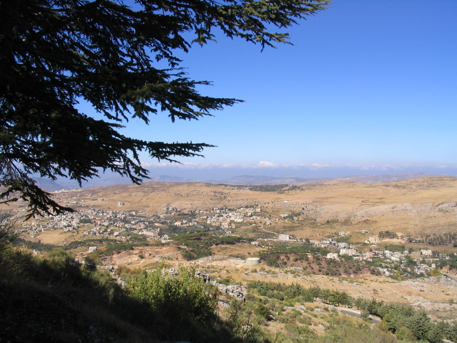 View from the Barouk Forest